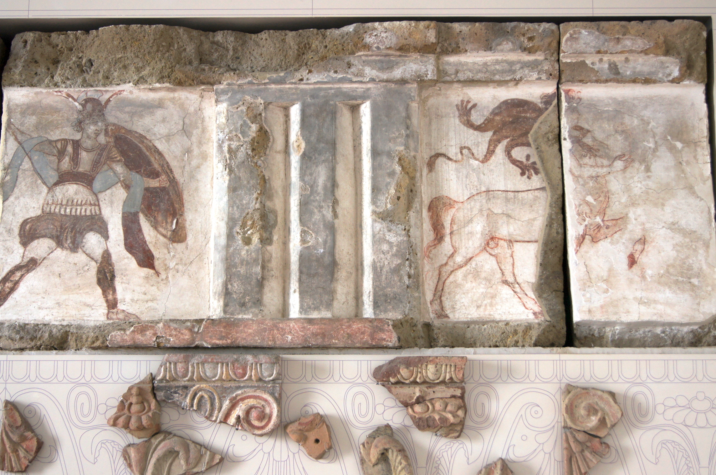 from Cumae in Museo archeologico dei Campi Flegrei